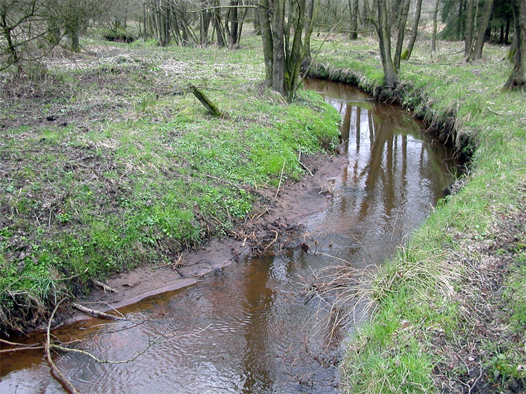 The Geeste river in North Germany near its source in Heinschenwalde